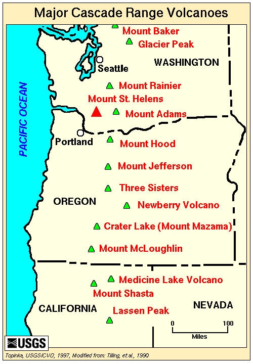 Cascade Range volcanoes